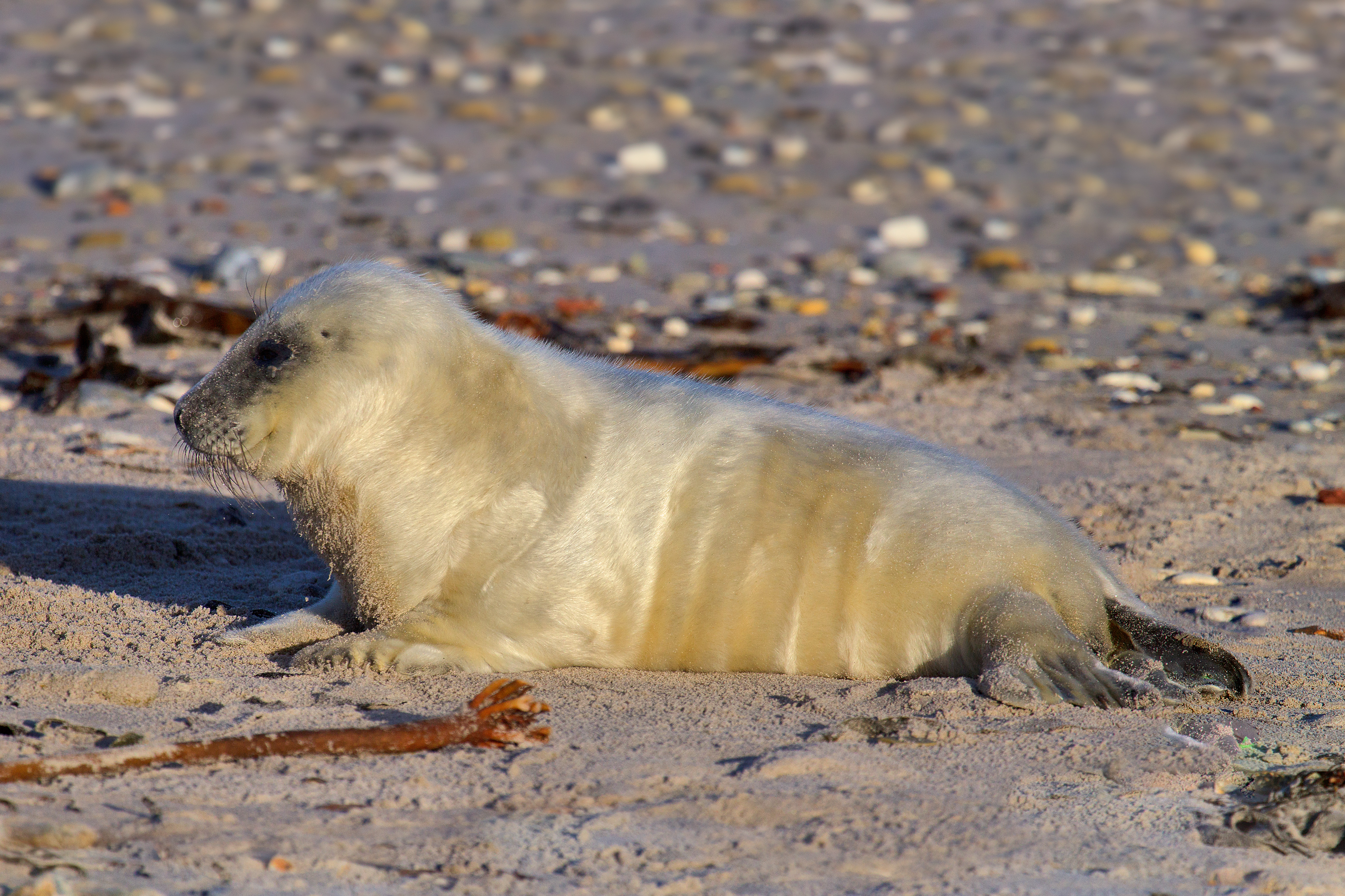 juvenile Grey seal